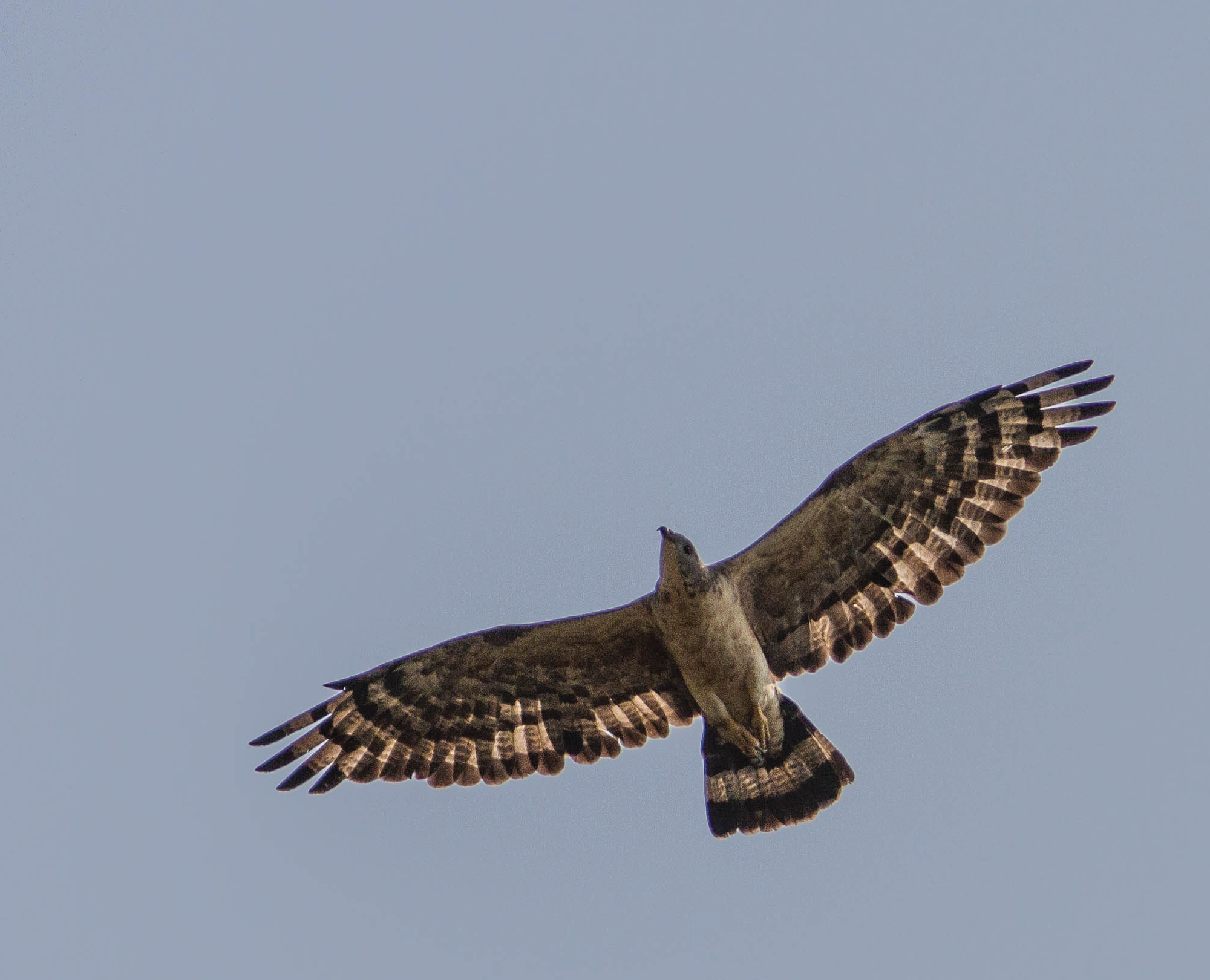 Oriental Honey Buzzard or Crested Honey Buzzard Male in flight